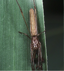 male Tetragnatha nitens from Okinawa.